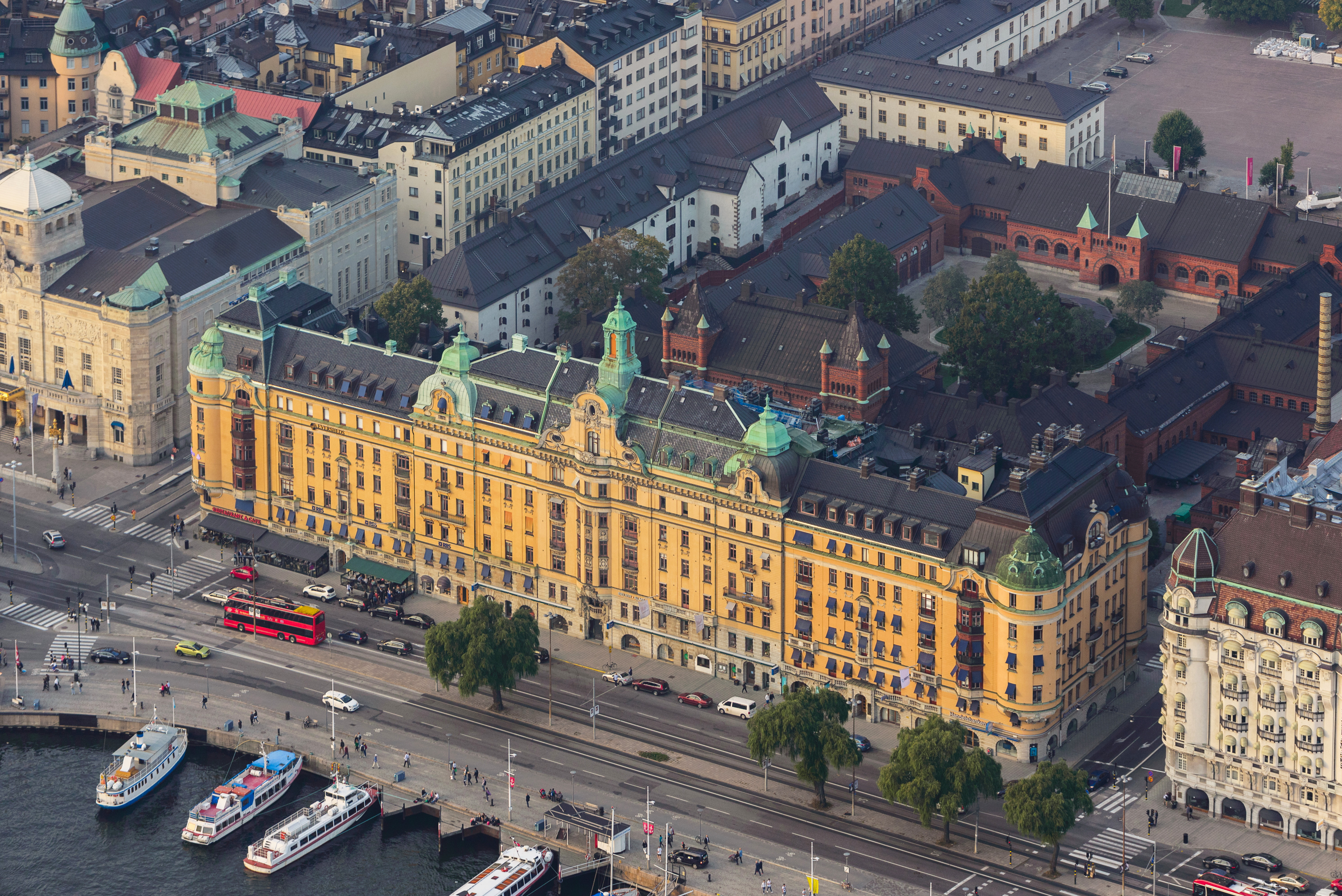 City block "Bodarna". Östermalm, Stockholm.